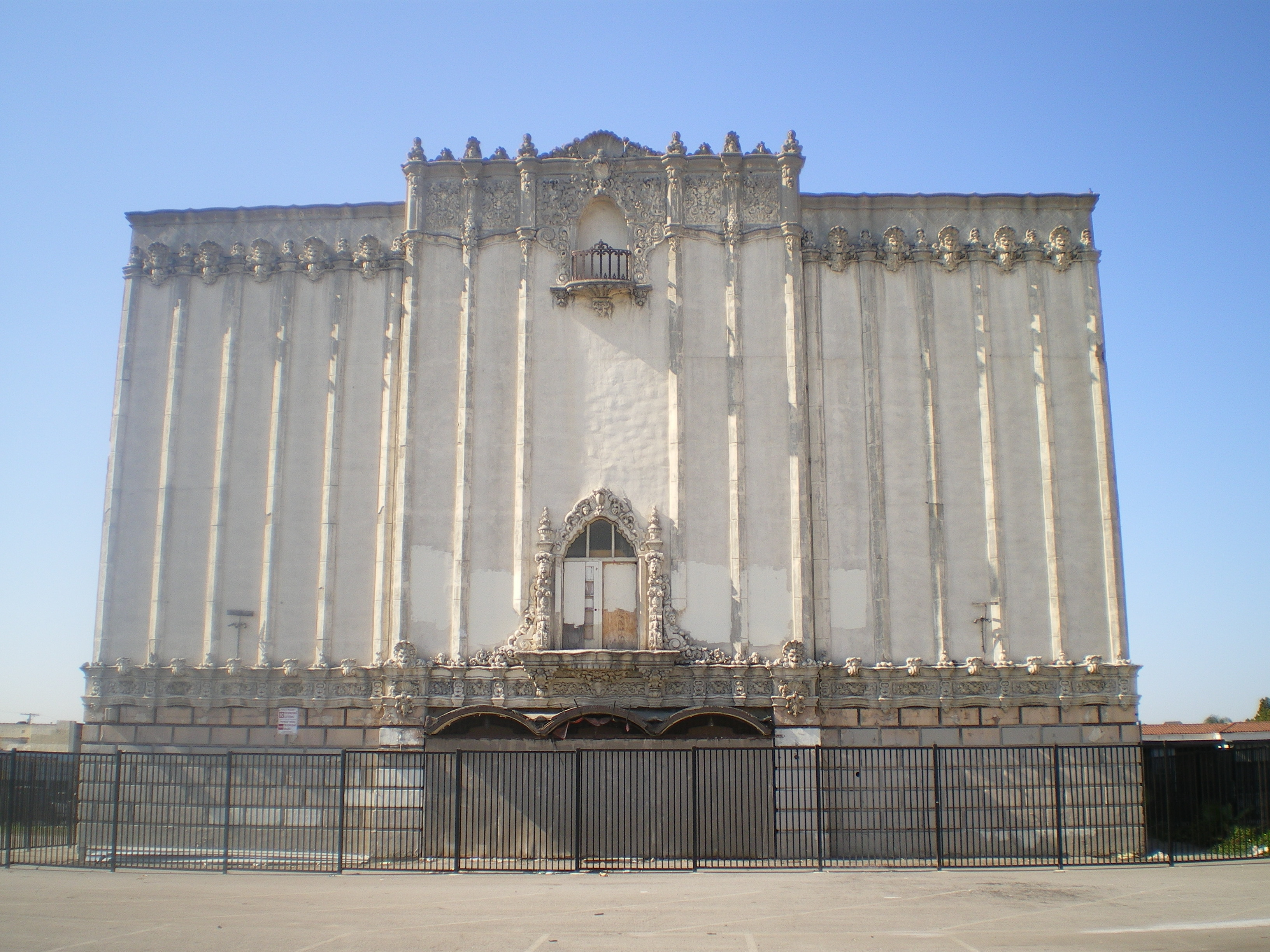 Old Theater, approximately 5190 Whittier Blvd., Los Angeles, California